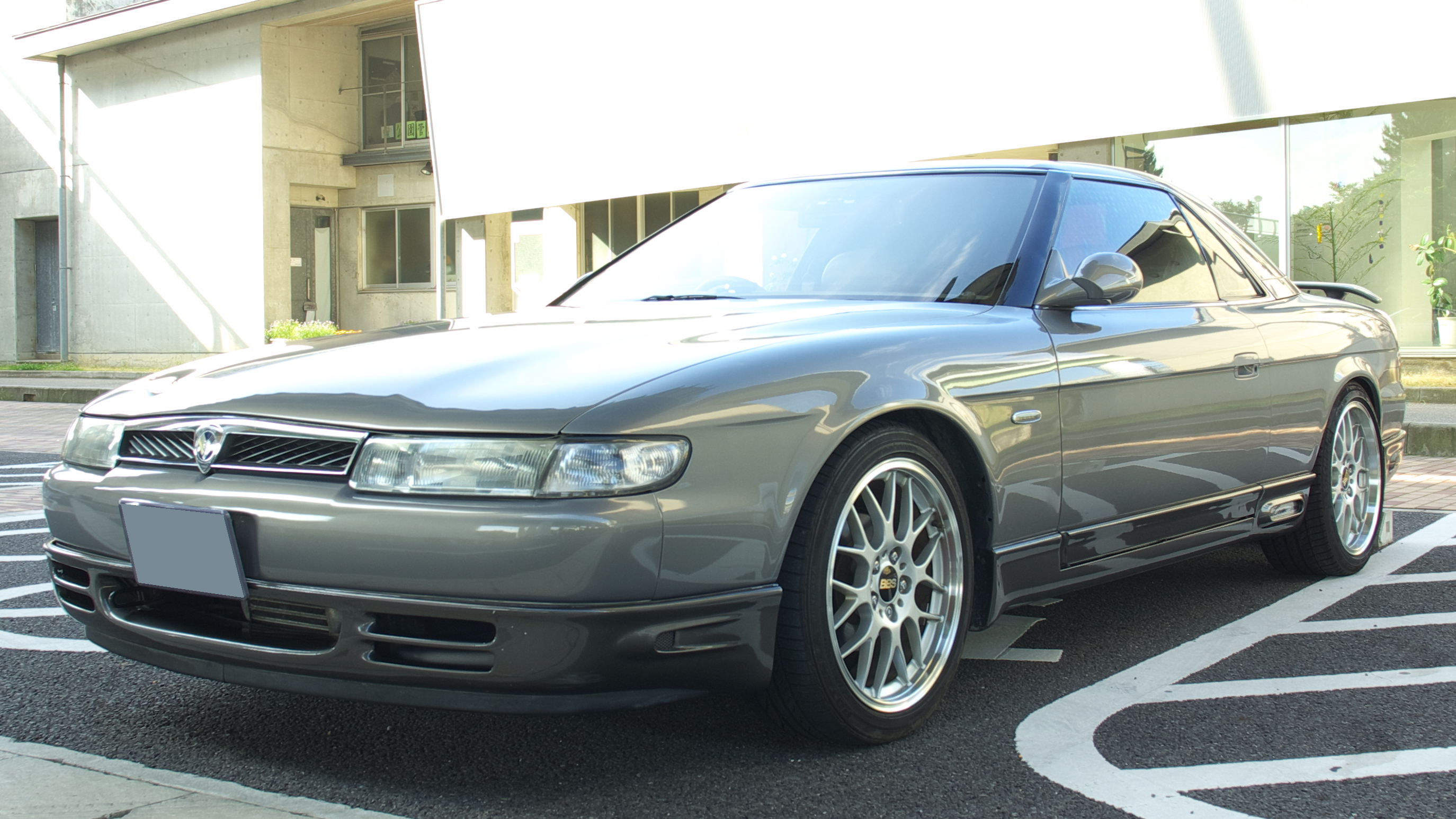 MAZDA EUNOS COSMO 3ROTOR(20B)